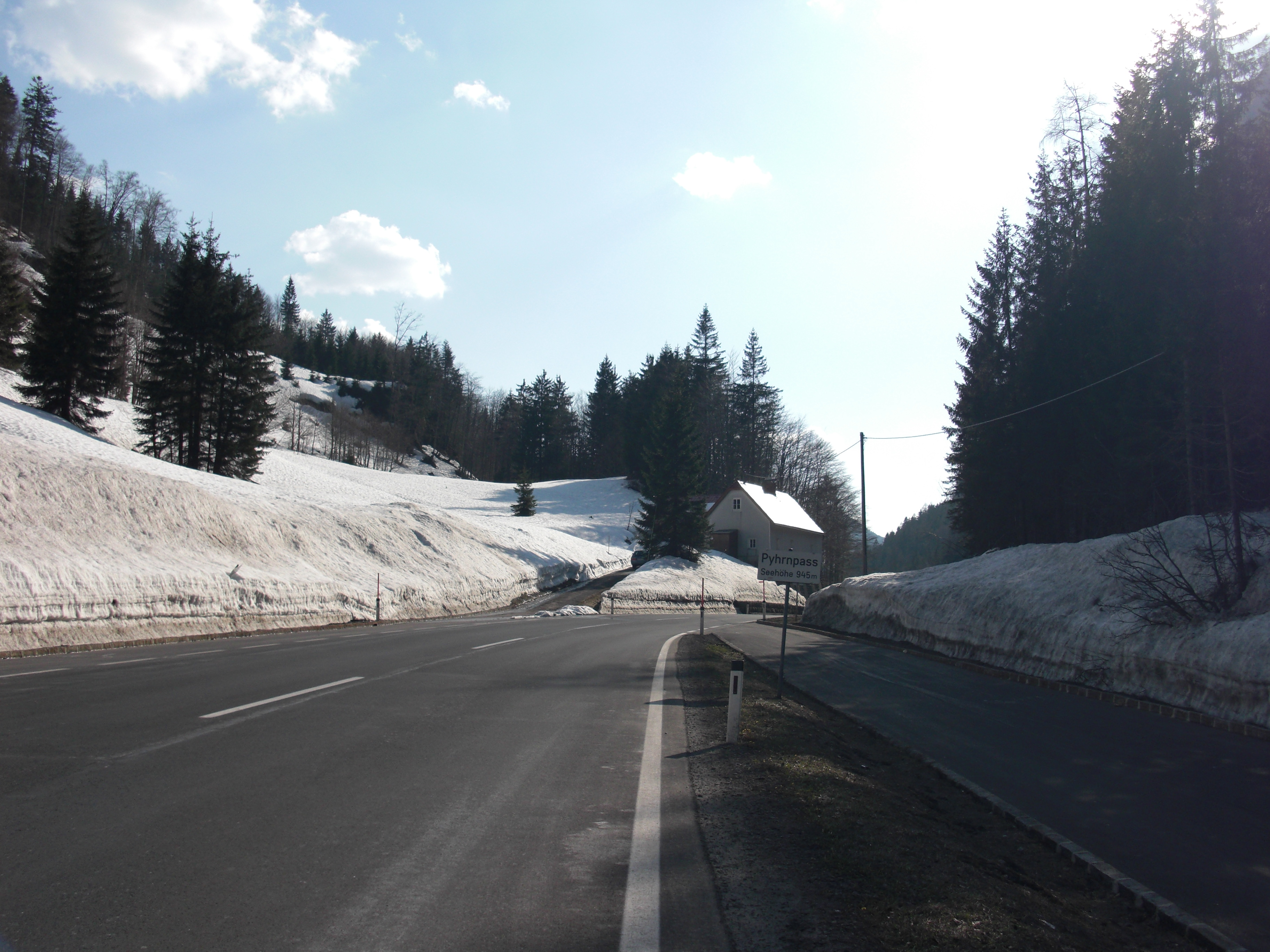 Summit of the Pyhrnpass with sign, in april 2009